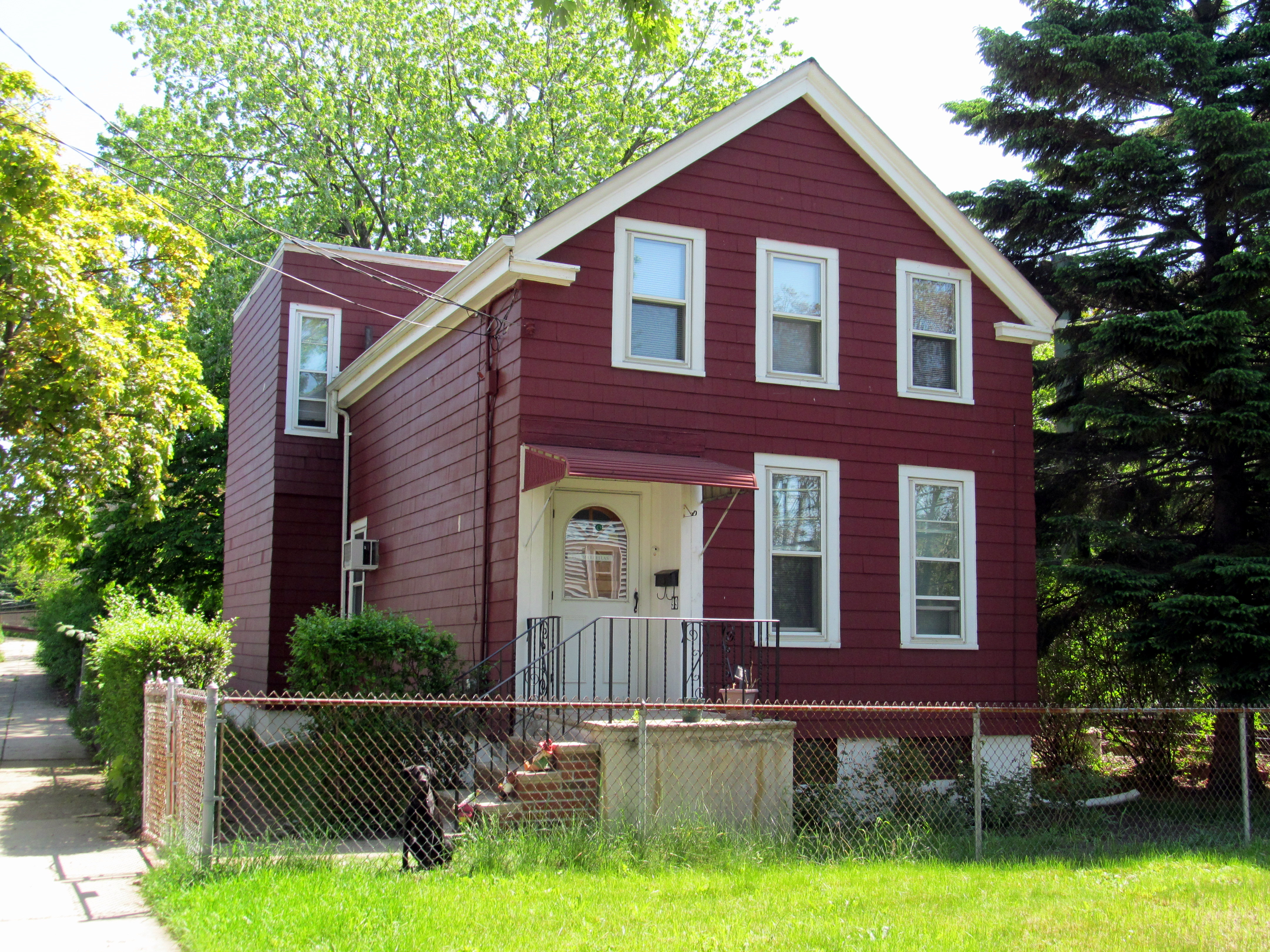 Former Harbor View station on the Boston, Revere Beach and Lynn Railroad, now a private house